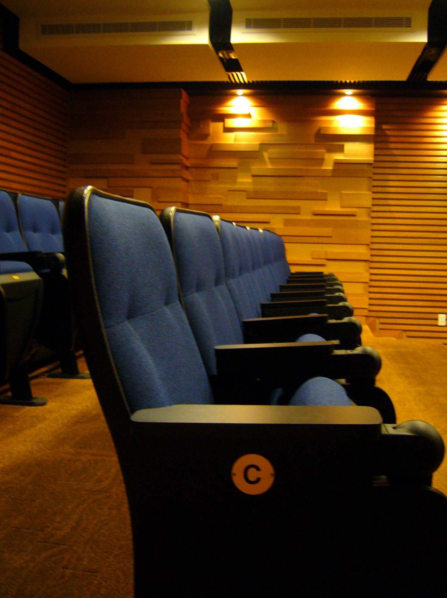 Nesma & Partners Auditorium Hall & Chairs; Architectural Design by Wissam Shekhani on August 2011